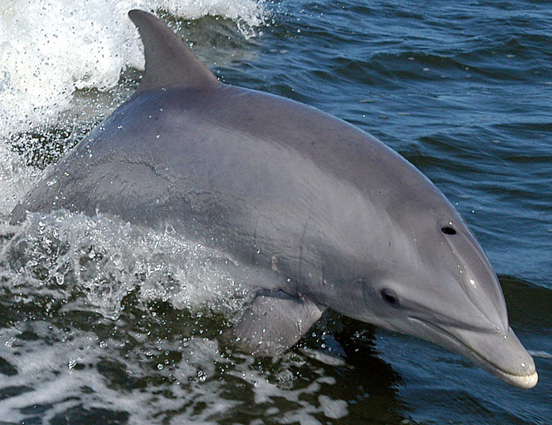 Bottlenose Dolphin - Tursiops truncatus A dolphin surfs the wake of a research boat on the Banana River - near the Kennedy Space Center.